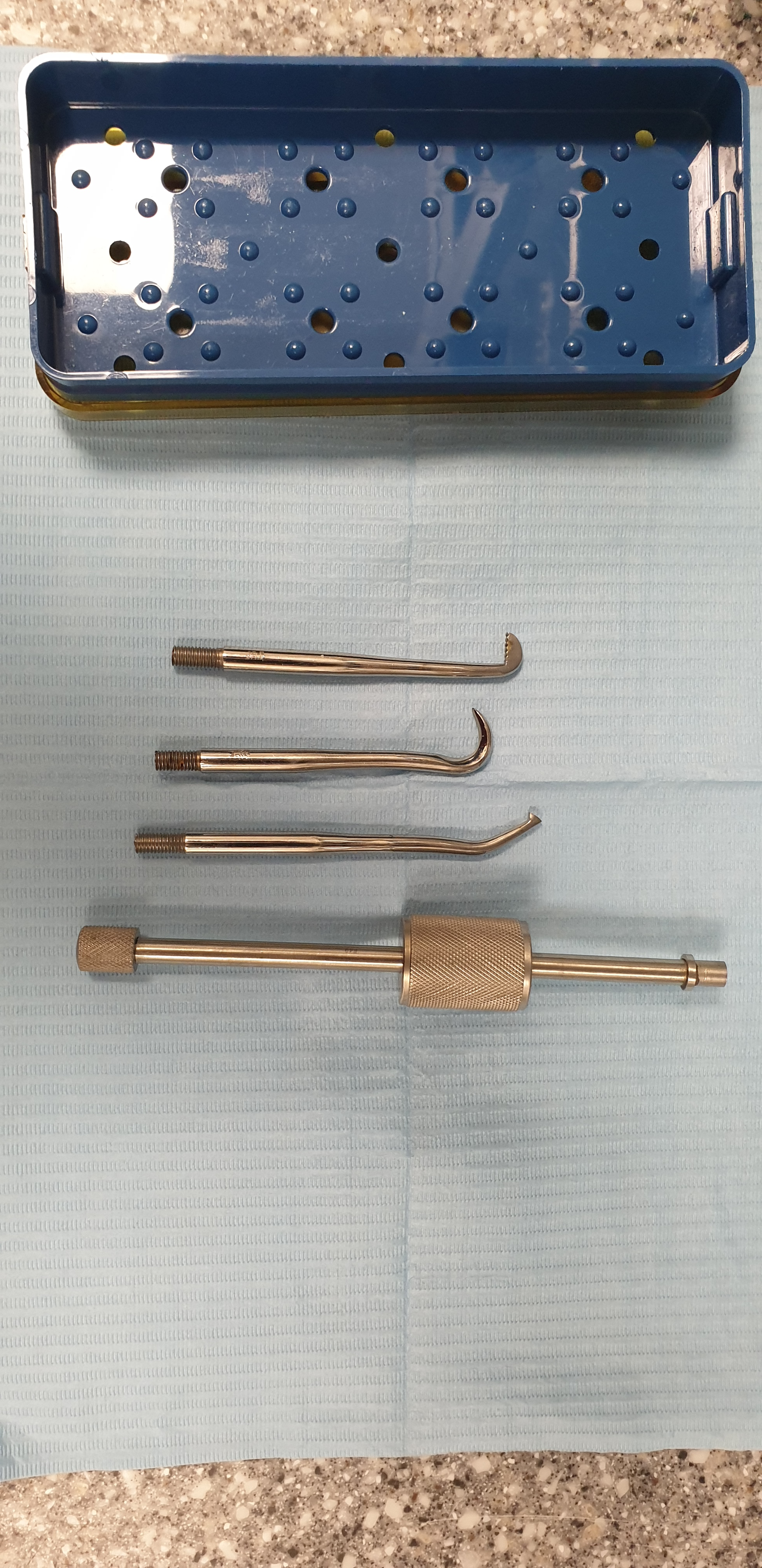 Image of sliding hammer used to remove crowns